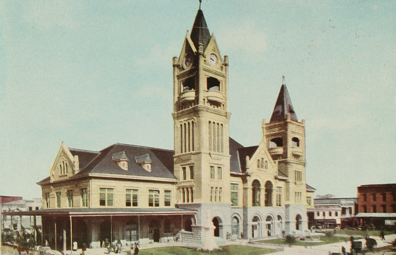 The old city hall of Houston. From "Houston: Where Seventeen Railroads Meet the Sea" Page 12/40 "View of the City Hall and Public Market. Municipal Government in Houston is Commission Form, With a Mayor and Four Commissioners at Its Head."